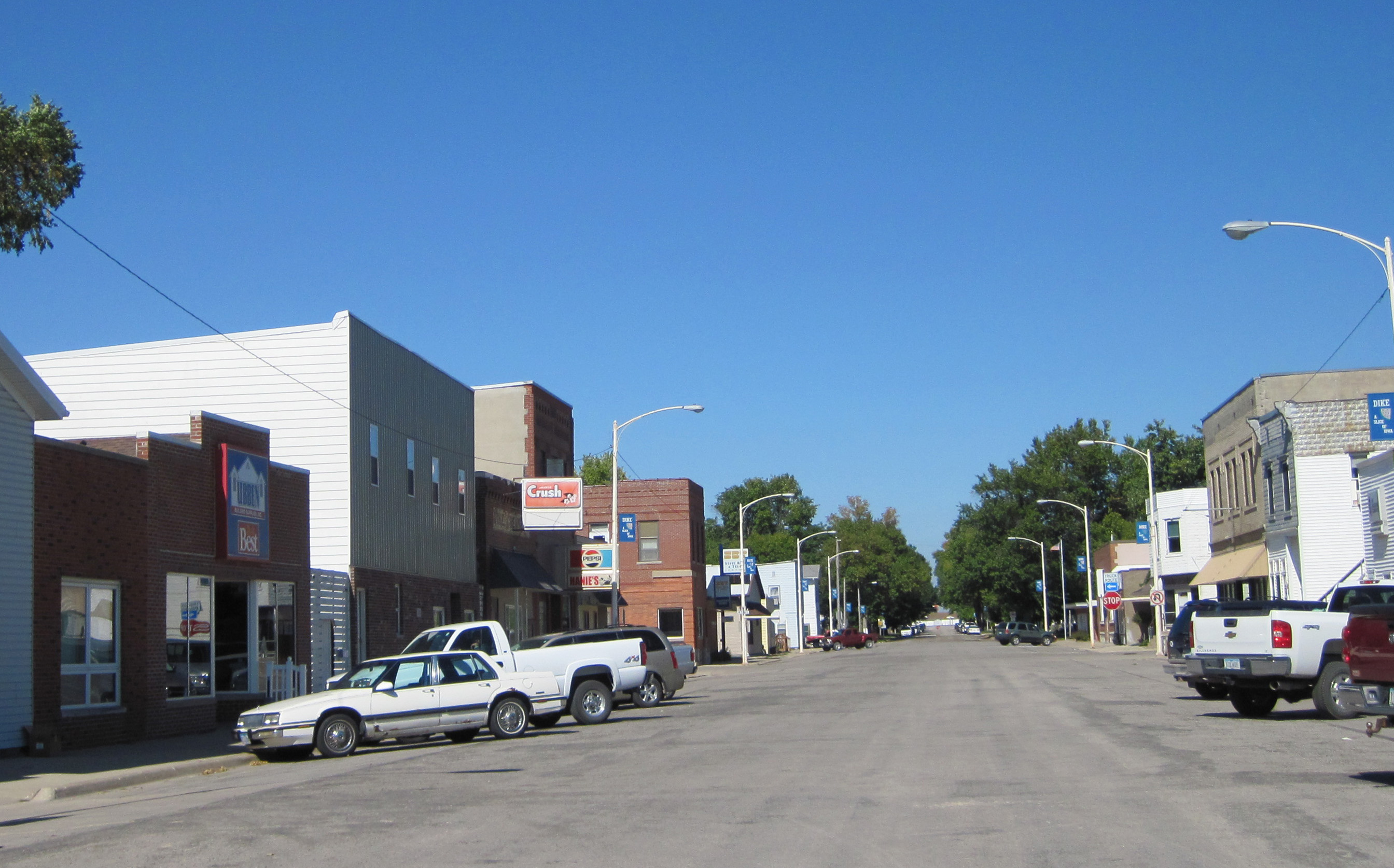 Dike. Bill Whittaker (talk) 17:27, 1 October 2009 (UTC)